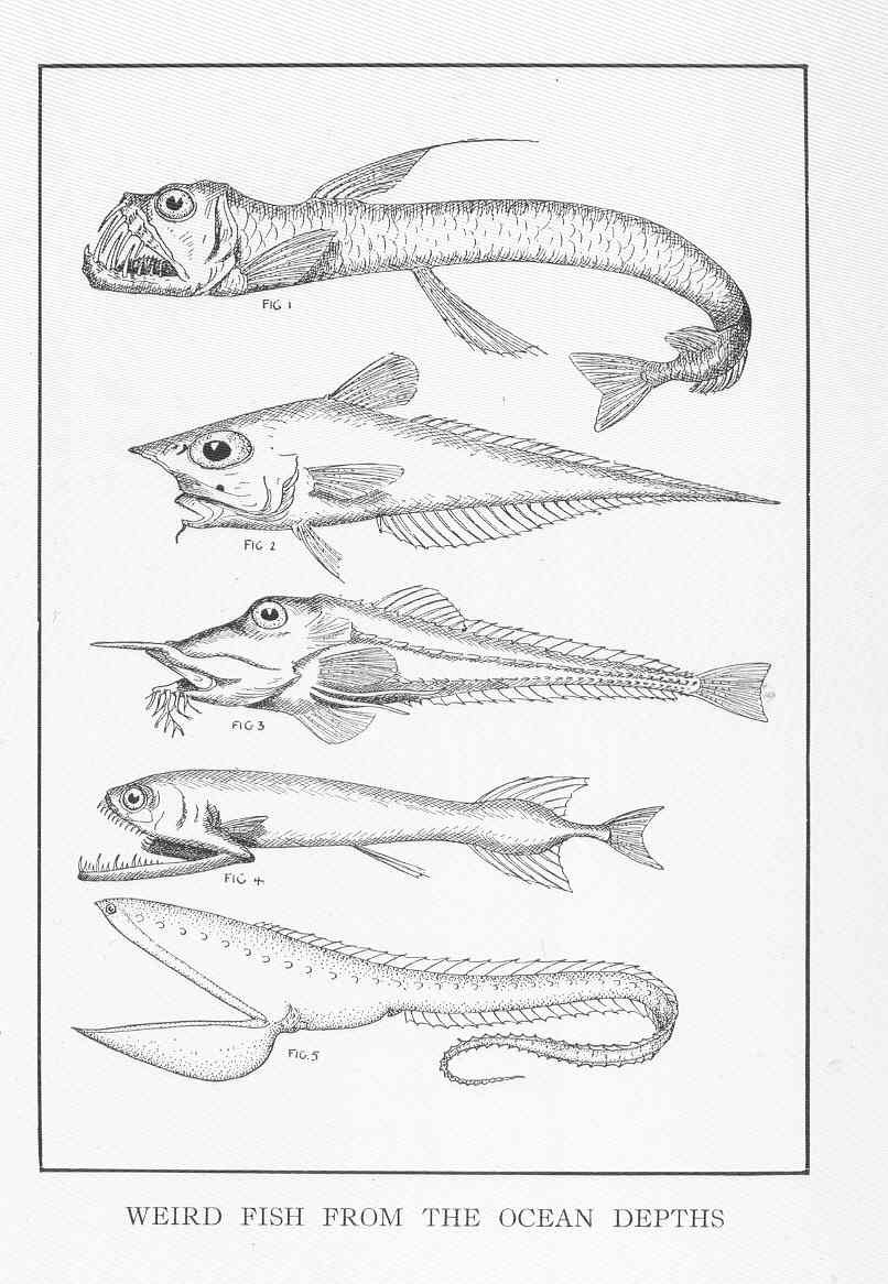 Weird Fish from the Ocean Depths Subject: Deep-sea fishes Tag: Fish